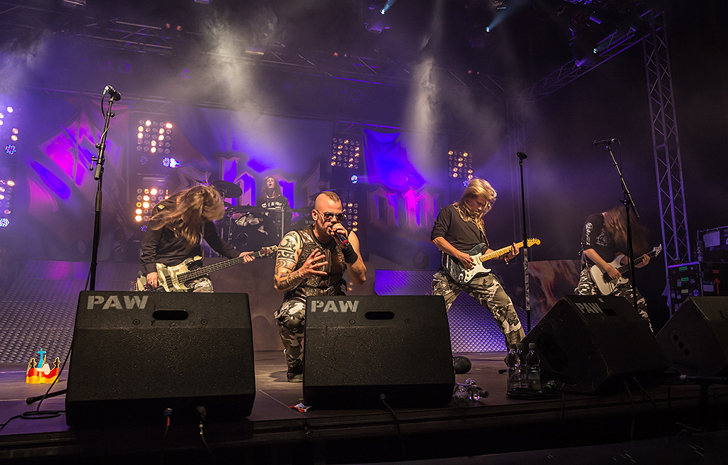 Sabaton 21.9.2012 Geiselwind, Eventhalle